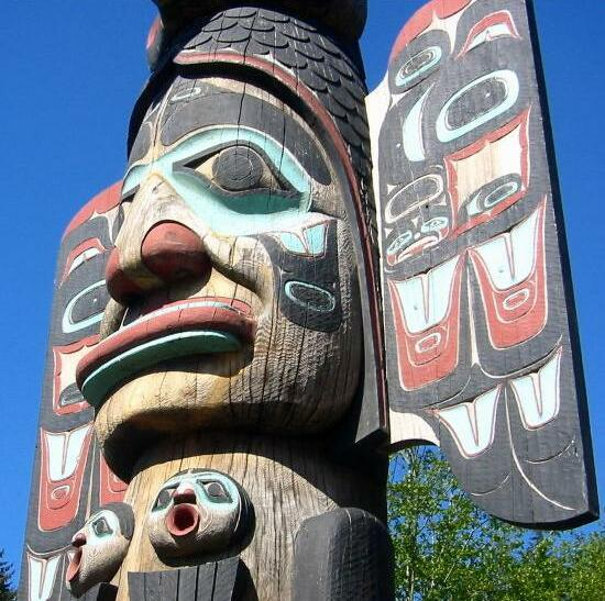 Ketchikan, Alaska. Native American totem pole